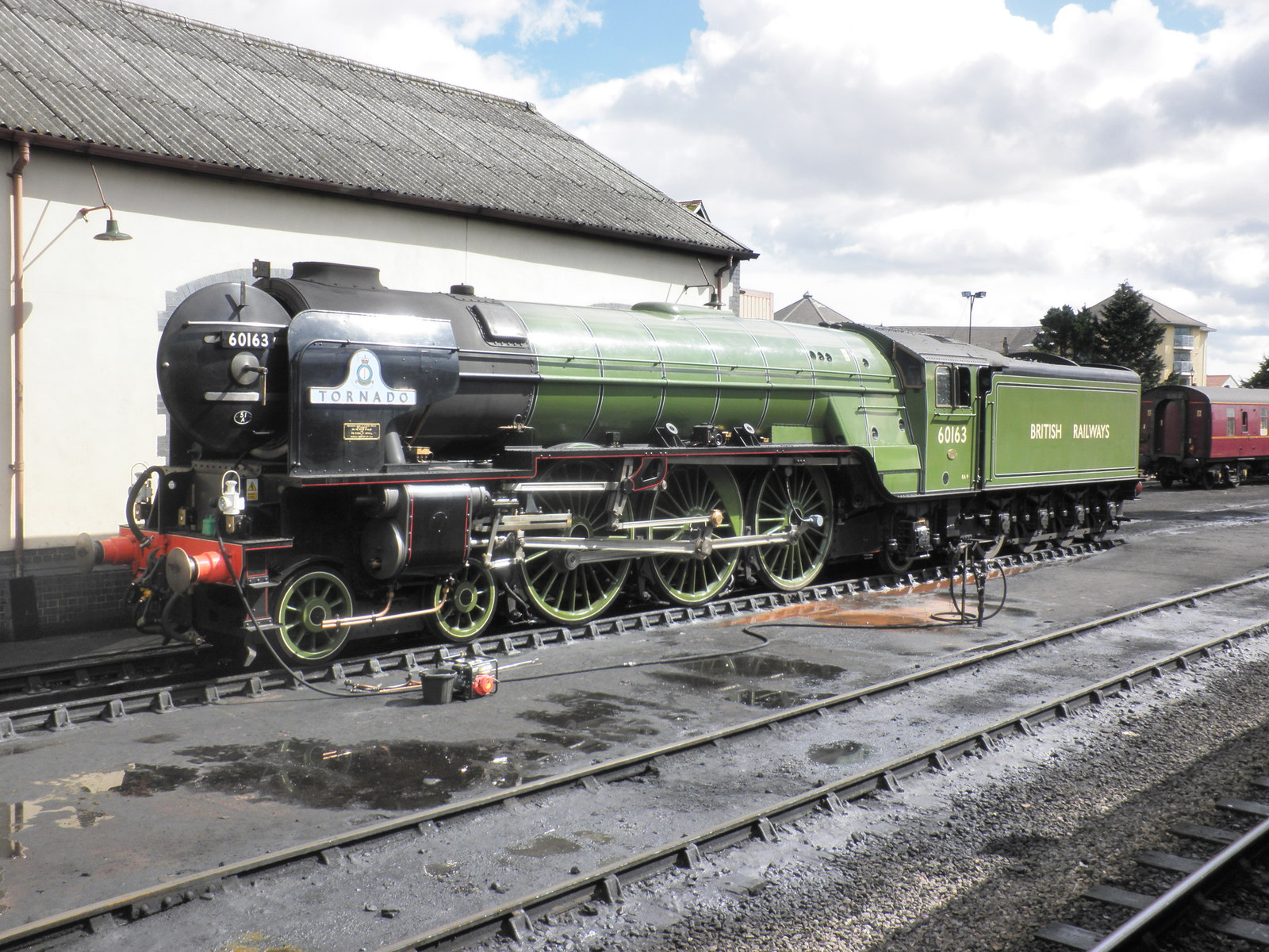 Tornado, at Minehead, Data from Geograph: Description: Routine maintenance, at Minehead locomotive shed, after working a series of Gala 'specials'. ICBM: 51.20686082914, -3.4686535910486 Location: (about 0 km from) near to Minehead, Somerset, Great Britain.